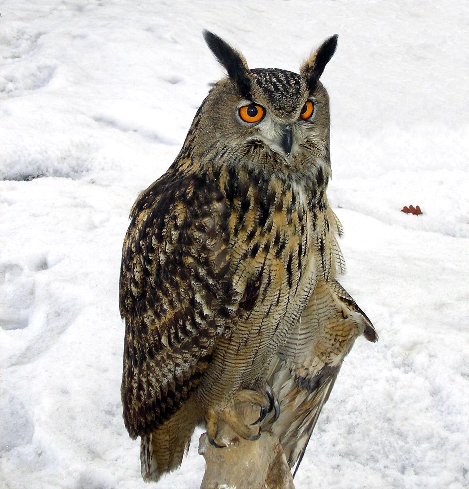 Eurasian Eagle Owl (Bubo bubo), Poland